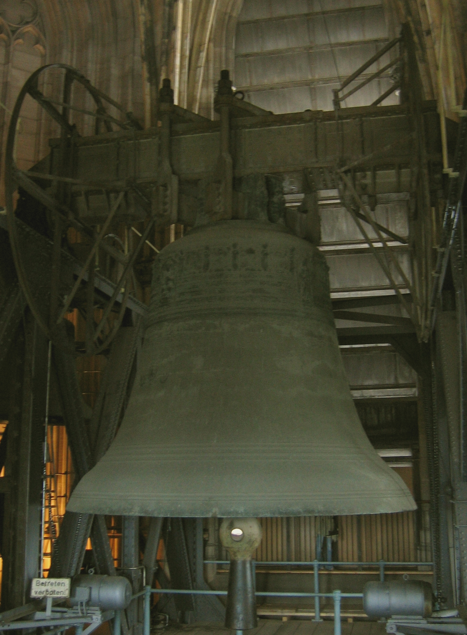 St. Peter's Bell of Cologne Cathedral, Germany. Cologne Cathedral Native nameHoher Dom zu KölnParent institutionlist of World Heritage in DangerLocationCologneCoordinates50° 56′ 28.68″ N, 6° 57′ 28.8″ E Established15 August 1248Web page control : Q4176 VIAF: 474145424621886830607 ISNI: 0000 0001 0831 2859 LCCN: n80113882 UNESCO: 292 GND: 4122597-1 WorldCat institution QS:P195,Q4176